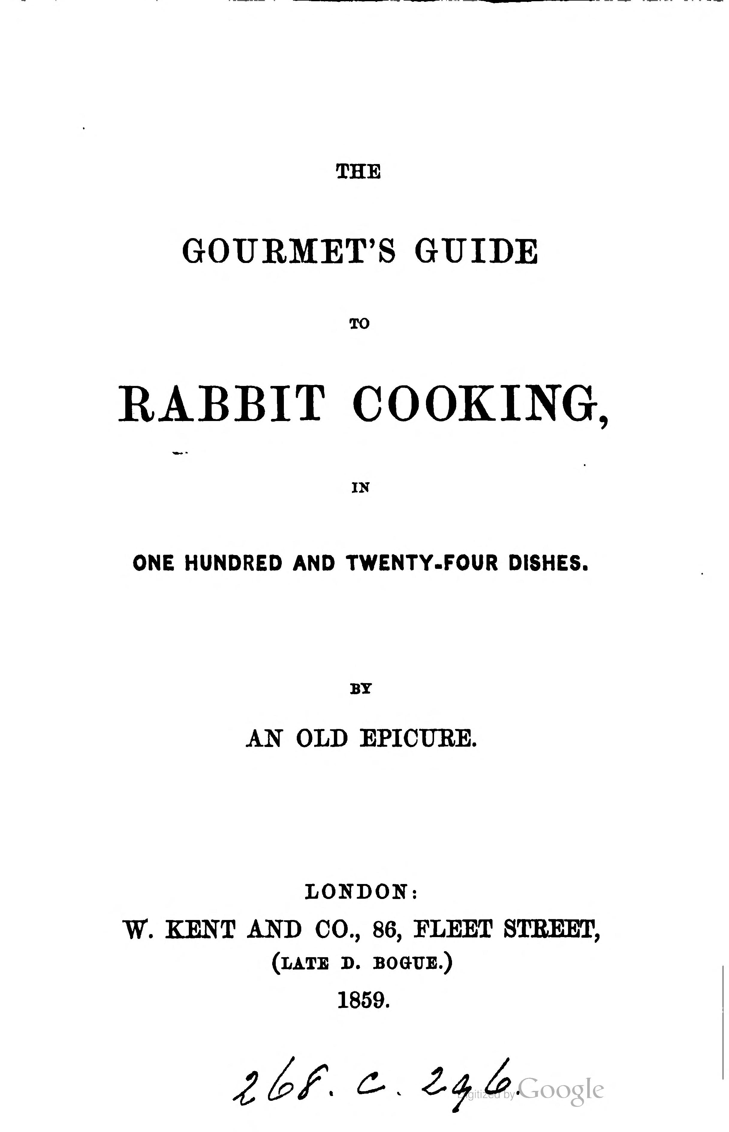 The Gourmet's Guide to Rabbit Cooking (1859) Title page